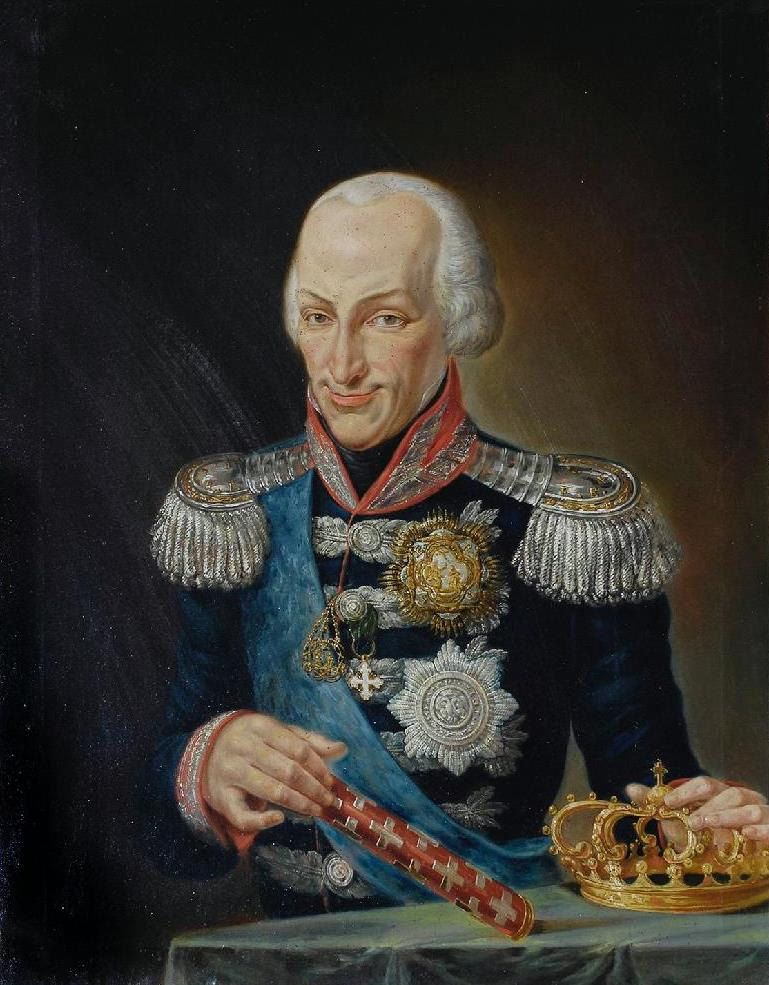 Victor Emmanuel I, king of Sardinia